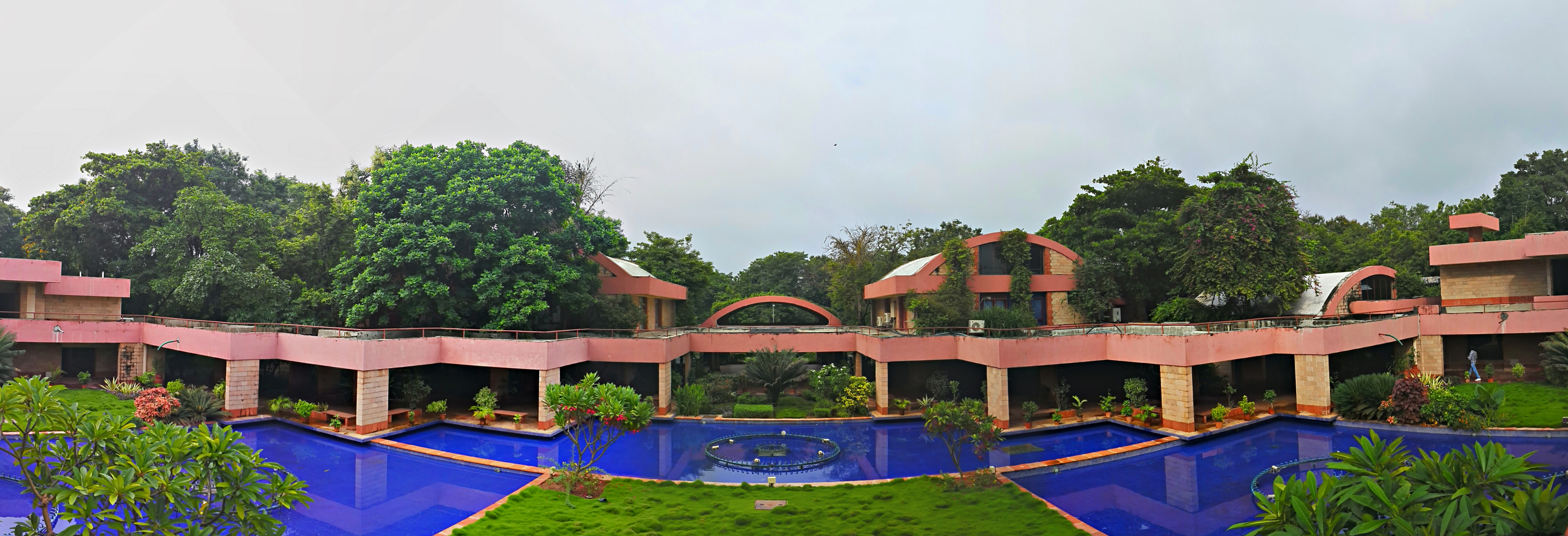 Panoramic view of IPR front.